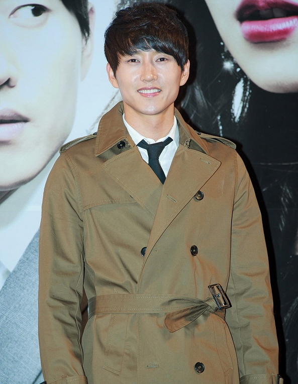 Hyun Woo Sung in February 2012